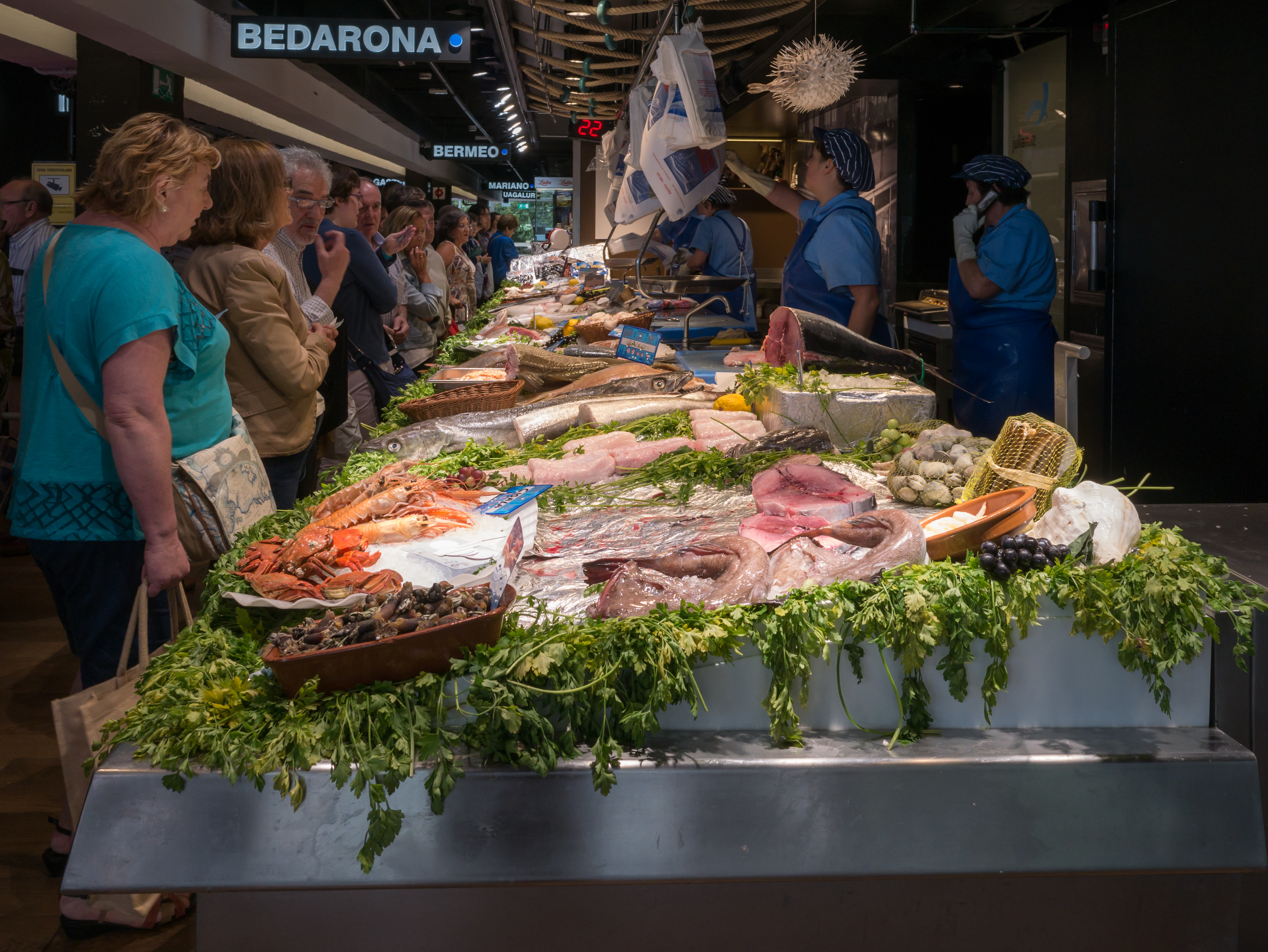 Fish shop in the town market hall "Plaza de Abastos". Vitoria-Gasteiz, Basque Country, Spain